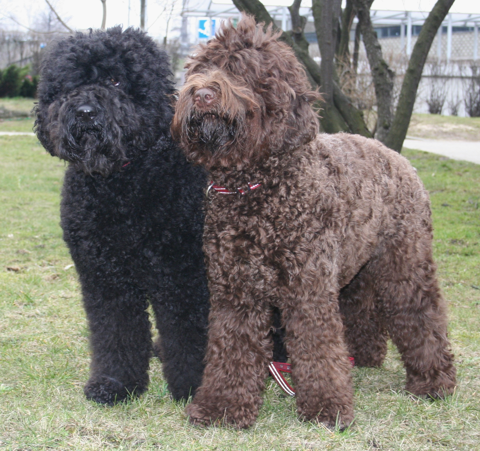 Barbets during the international dog show in Katowice - female from husbandry "z Kędziorkowa", the owner and breeder - Anna Stępińska, Poland.